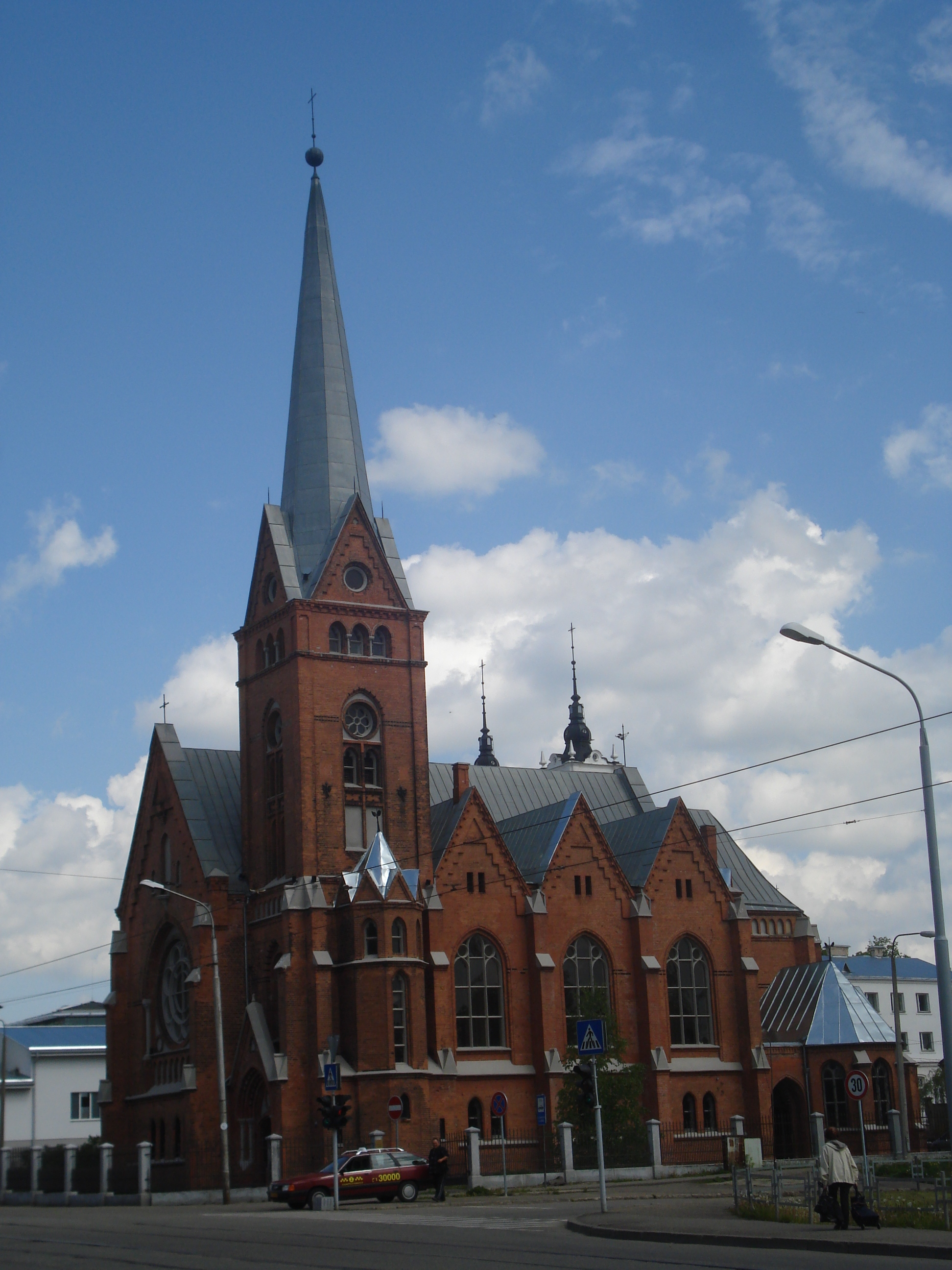 Daugavpils Evangelical Lutheran church of Martin Luther. 18. Novembra iela at Varšavas iela. Built in 1893